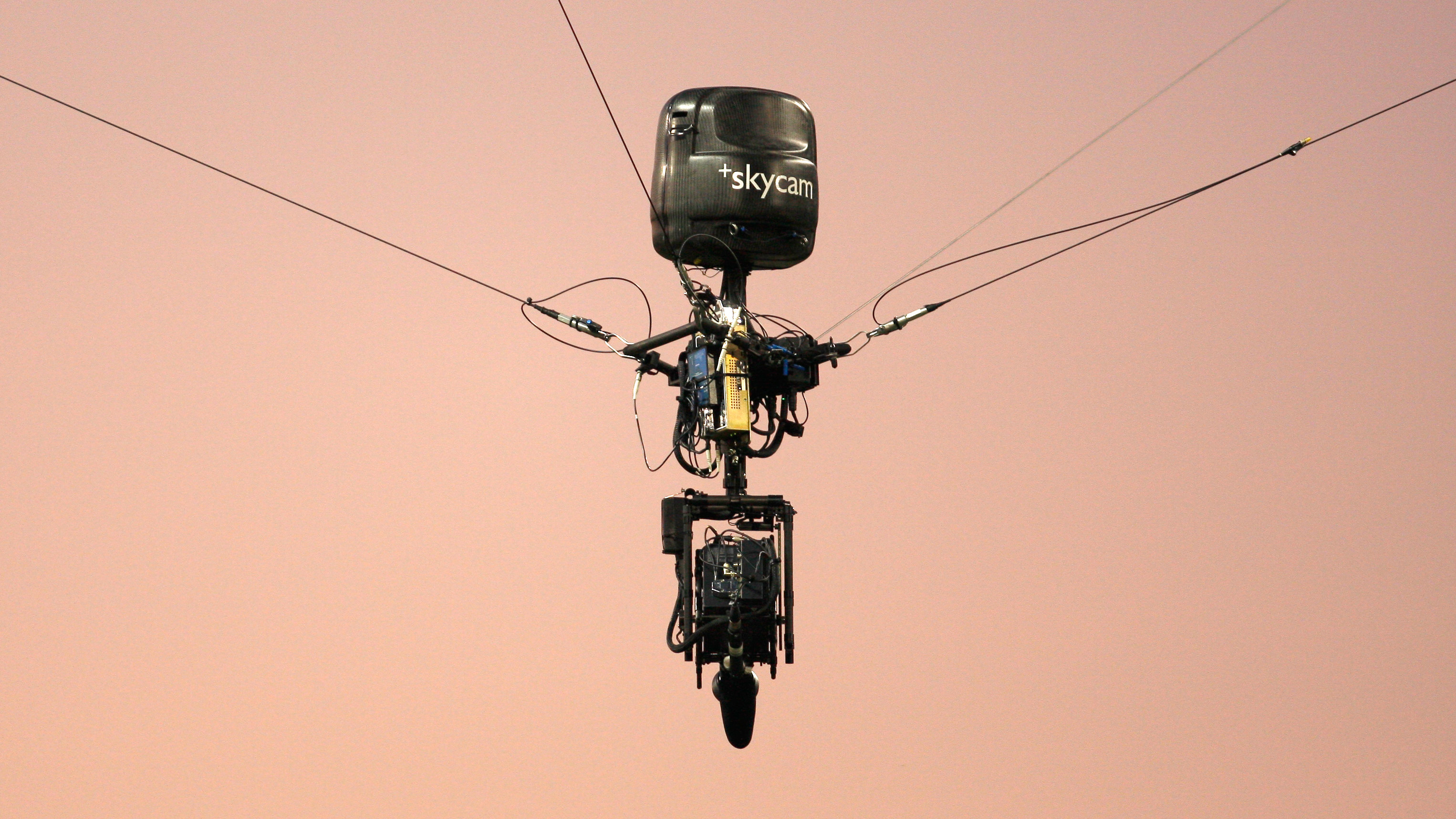 Image of a Skycam at work during a Washington Huskies football game at Husky Stadium in Seattle, Wash.